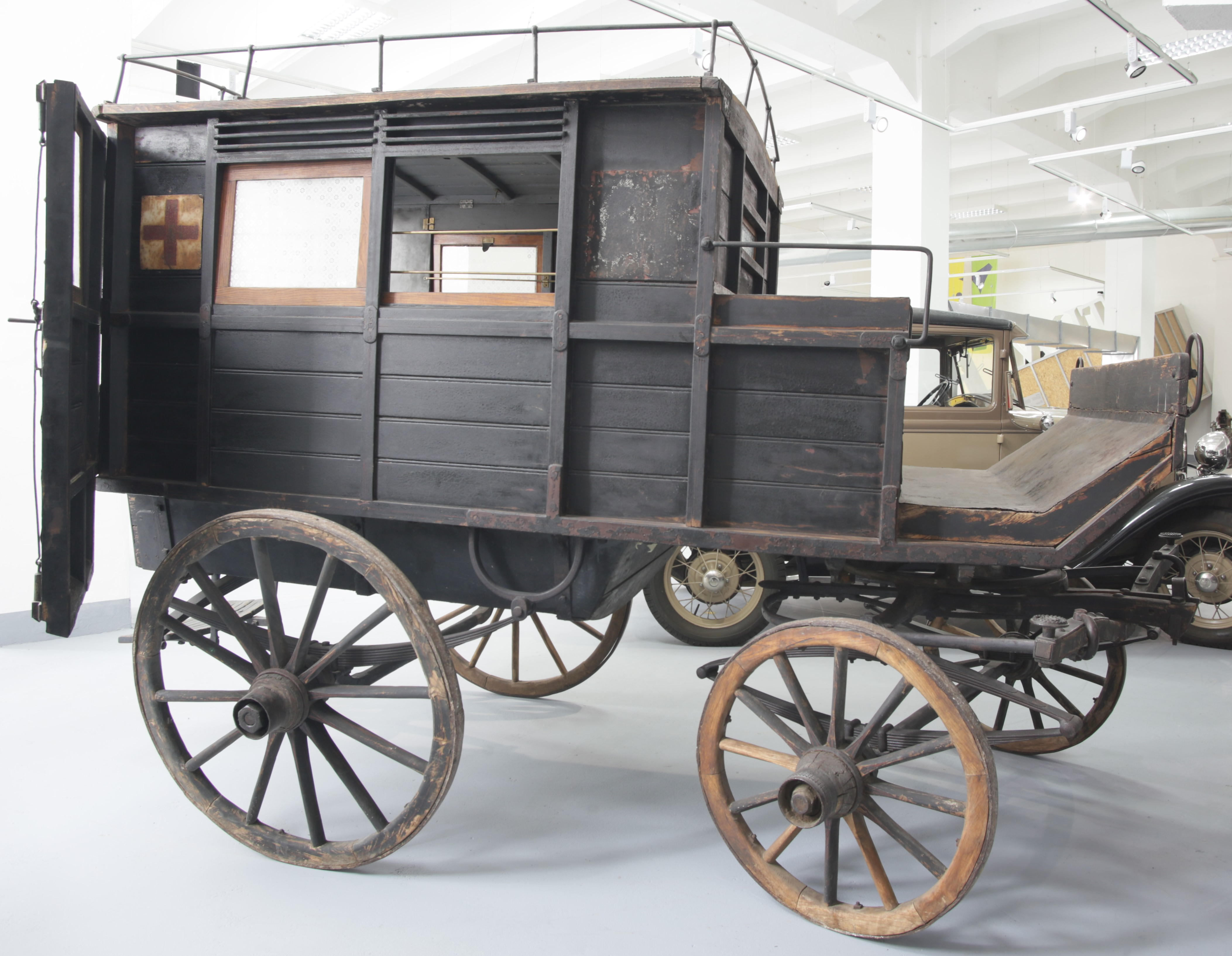 Horse driven army medical ambulance of the Mundy system. It was used in the Serbian-Turkish wars of the 19th century. It was constructed by Czech Jaromir Mundi. It is located in Museum of Science and Technology Belgrade.